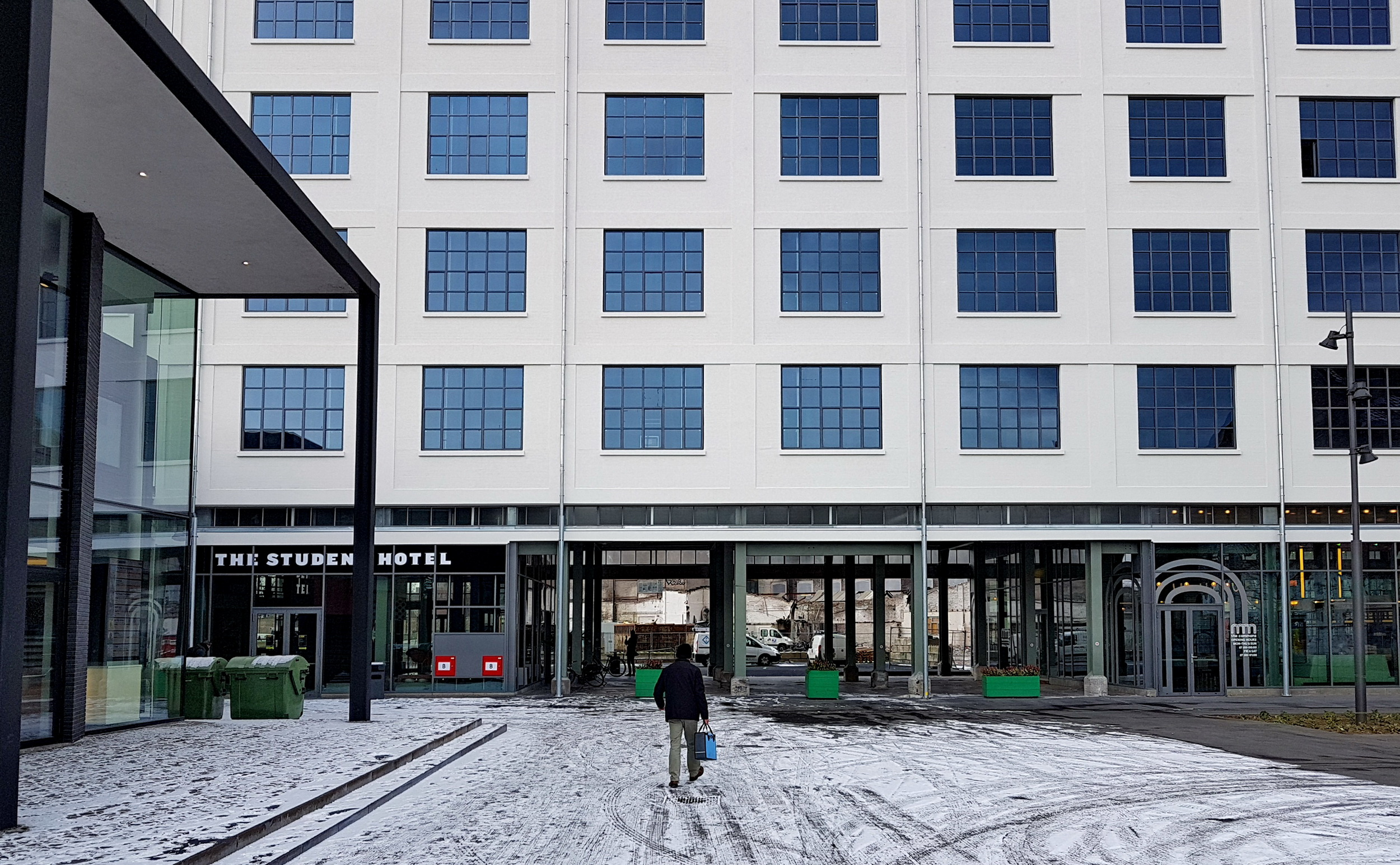 A snowy view of The Student Hotel in Maastricht, the Netherlands. The hotel is based in the Eiffel Building (Eiffelgebouw), a factory building constructed in 1929-1940 for Royal Sphinx potteries.